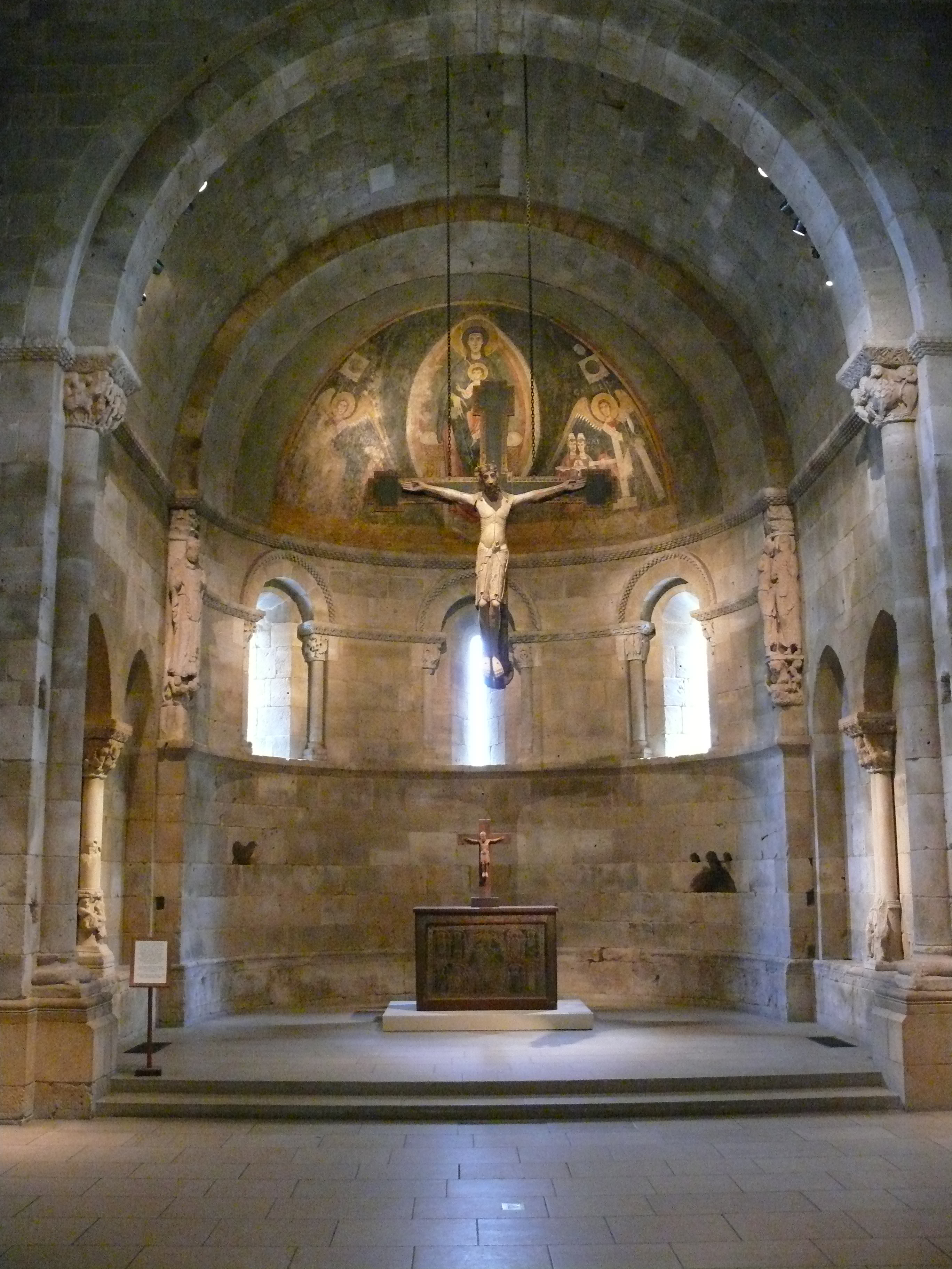 Reconstruction of a mediaeval chapel in The Cloisters, New York, NY. The chapel consists of: Altar frontal wood with canvas and polychromy. Spain, Lerida, ca. 1225. Christ on the Cross the corpus: linden with traces of polychromy; the cross: fir with traces of polychromy; Austria, Tirol or Salzburg, 1125-1150. The Virgin and Child in Majesty with Archangels and Magi Fresco, transferred to canvas Spain, Lerida, ca.1100 Crucifix: the corpus: oak, gilding, polychromy and applied stones the cross: red pine and polychromy Spain, Palencia, 1150-1200